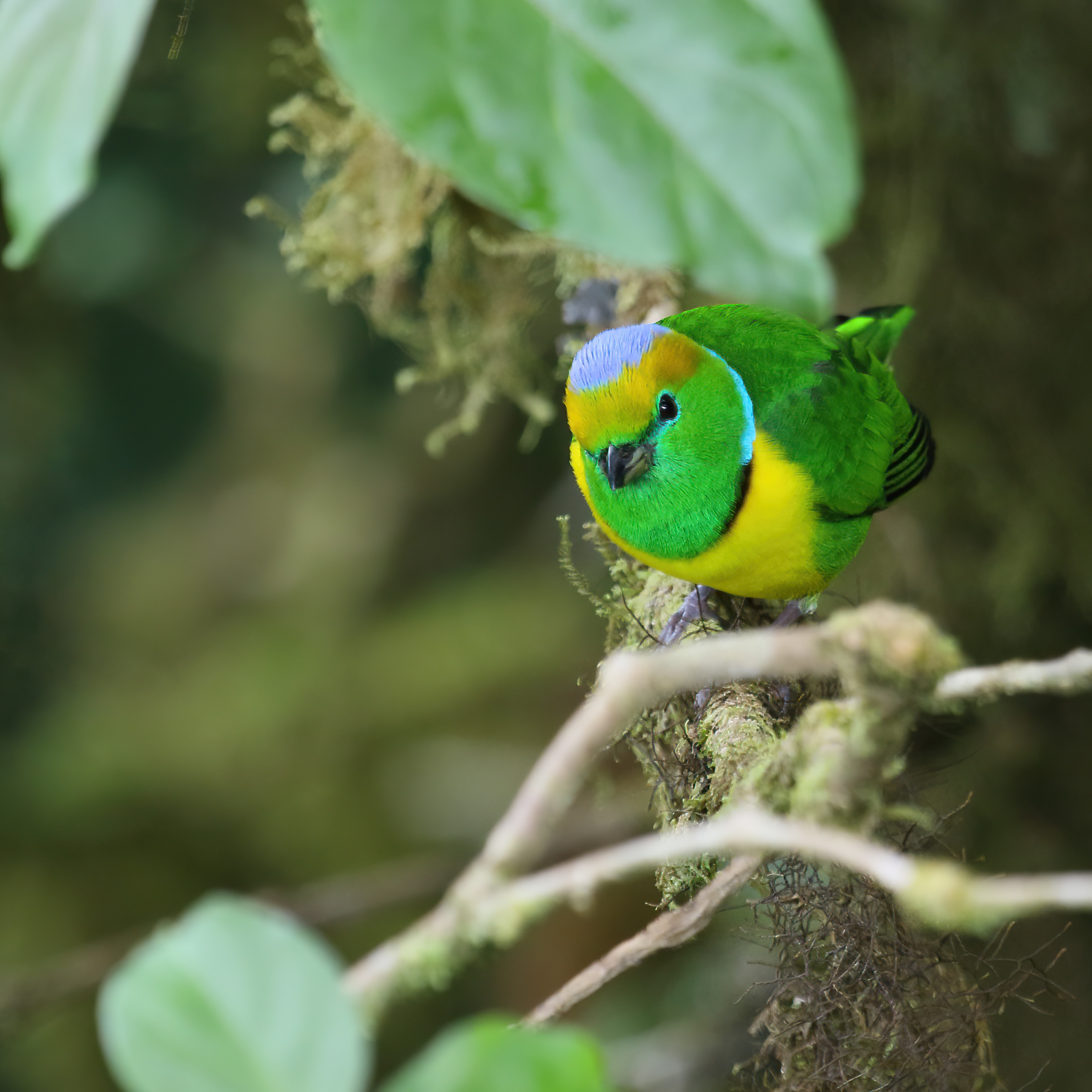 Golden-browed chlorophonia, Monteverde, Costa Rica